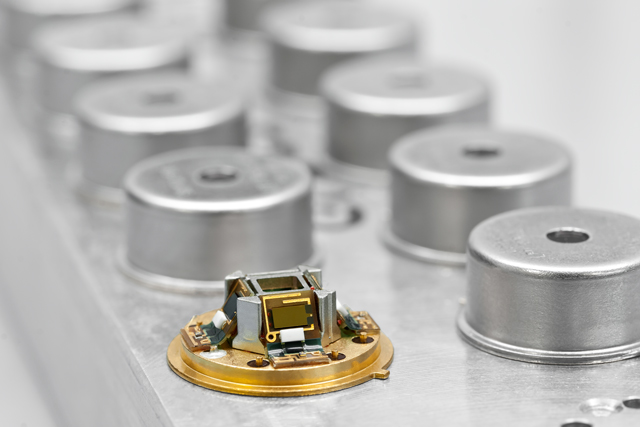 One open and several closed pyroelectric IR detectors with integrated beam splitters. Made by InfraTec GmbH Infrarotsensorik und Messtechnik (Dresden, Germany).